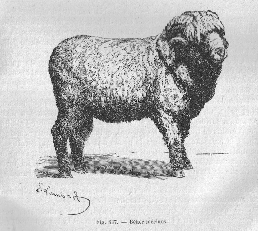 A merino ram (Ovis aries).